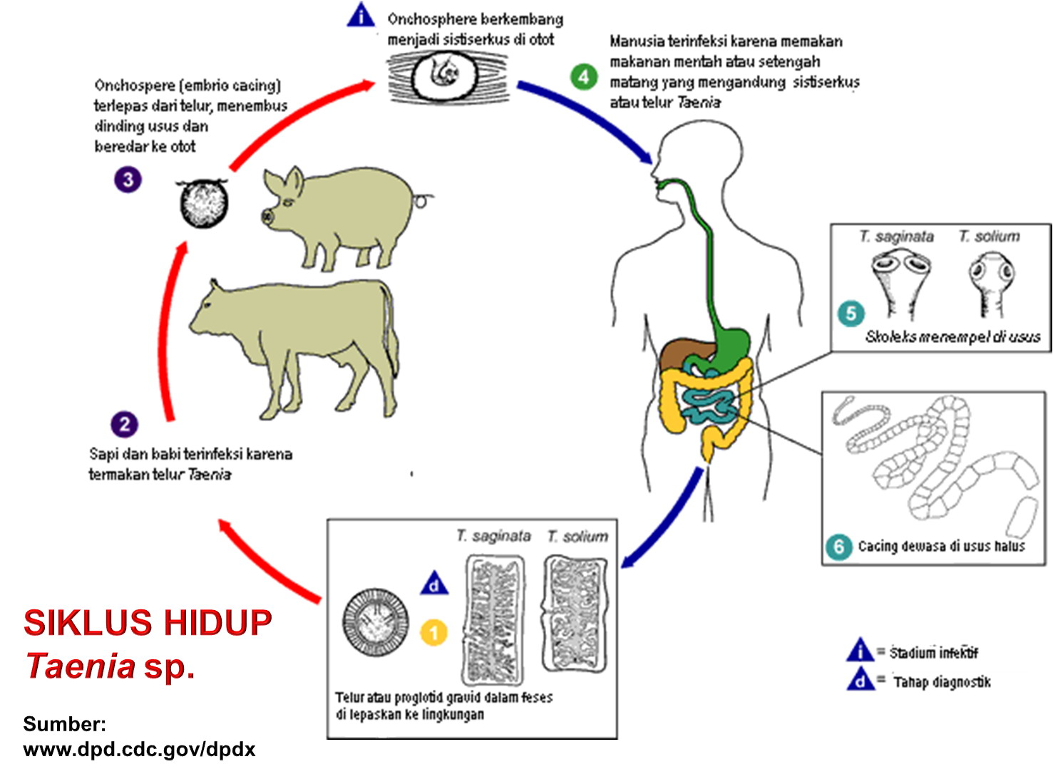 Life cycle of Taenia saginata & T. solium